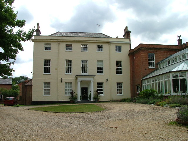 Wymondley House. Wymondley House has been converted into (very nice) apartments.